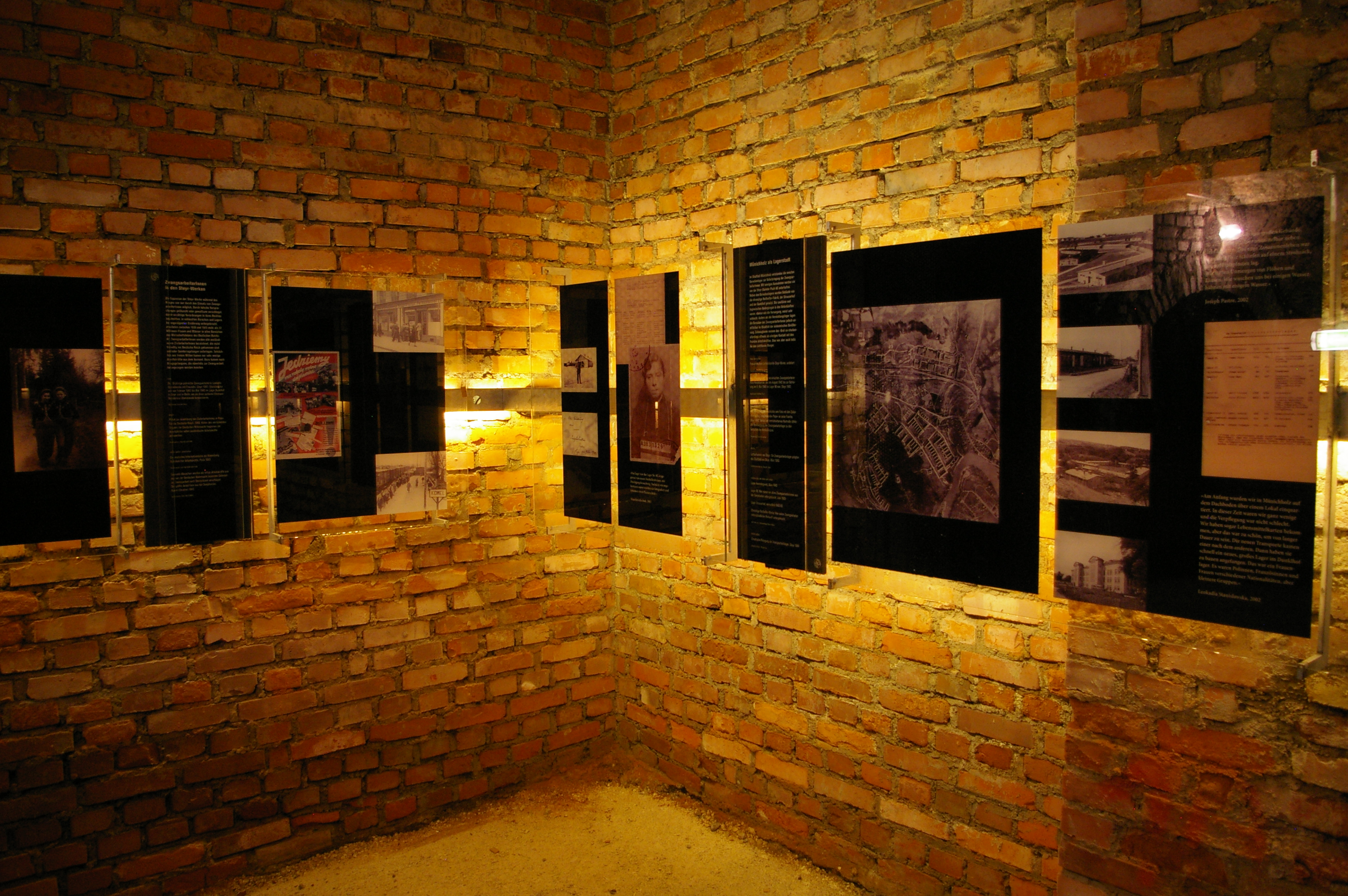 Memorial tunnel in Steyr